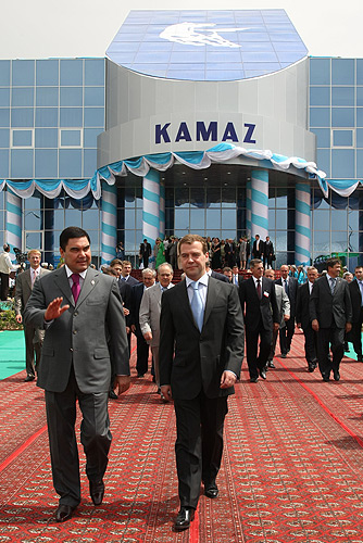 ASHGABAT. With President of Turkmenistan Gurbanguly Berdymukhammedov at the opening ceremony of a KamAZ service centre.